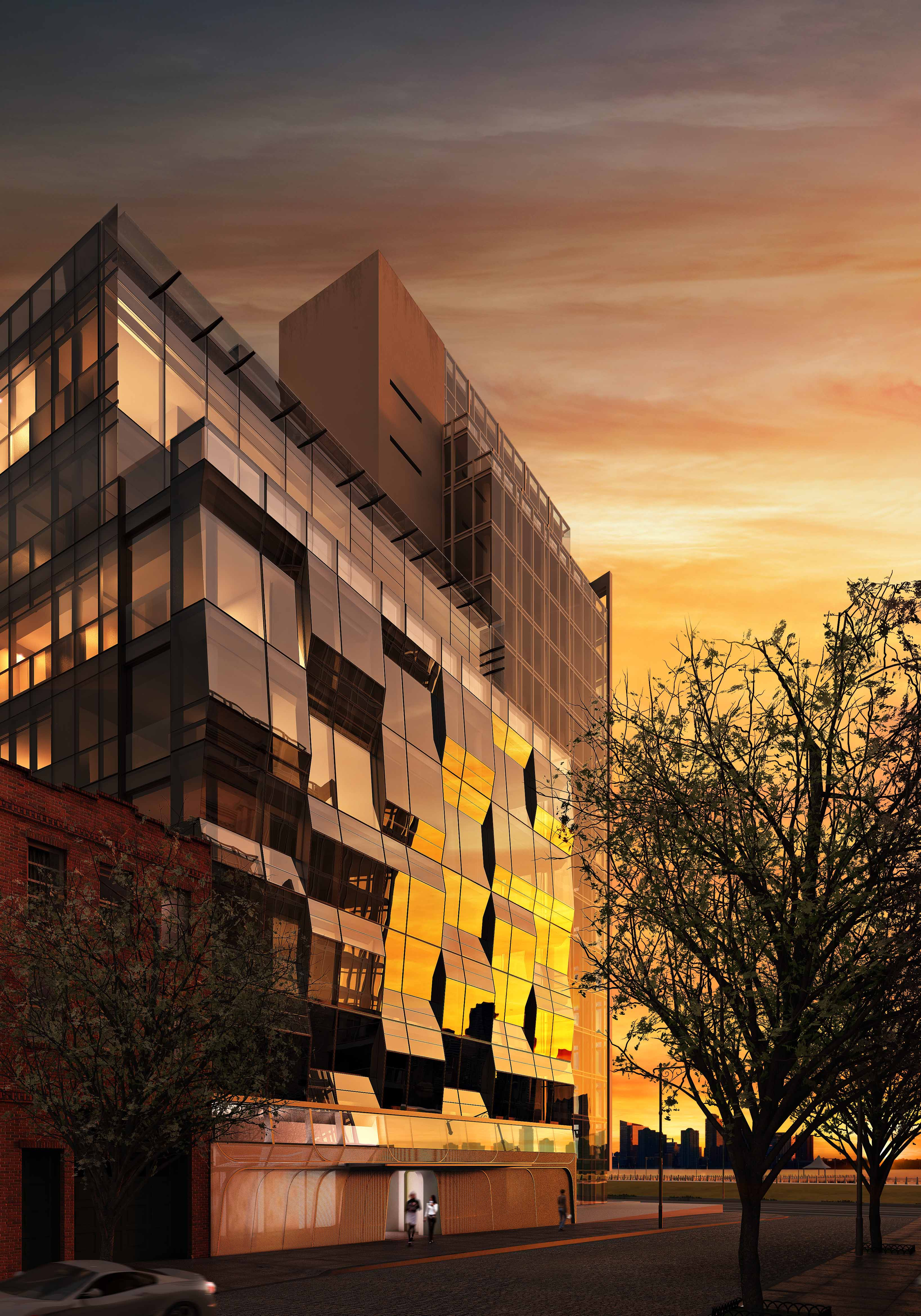 Asymptote Architecture artist's conception of planned condominium building at 166 Perry Street in the West Village, New York, NY. (same image)